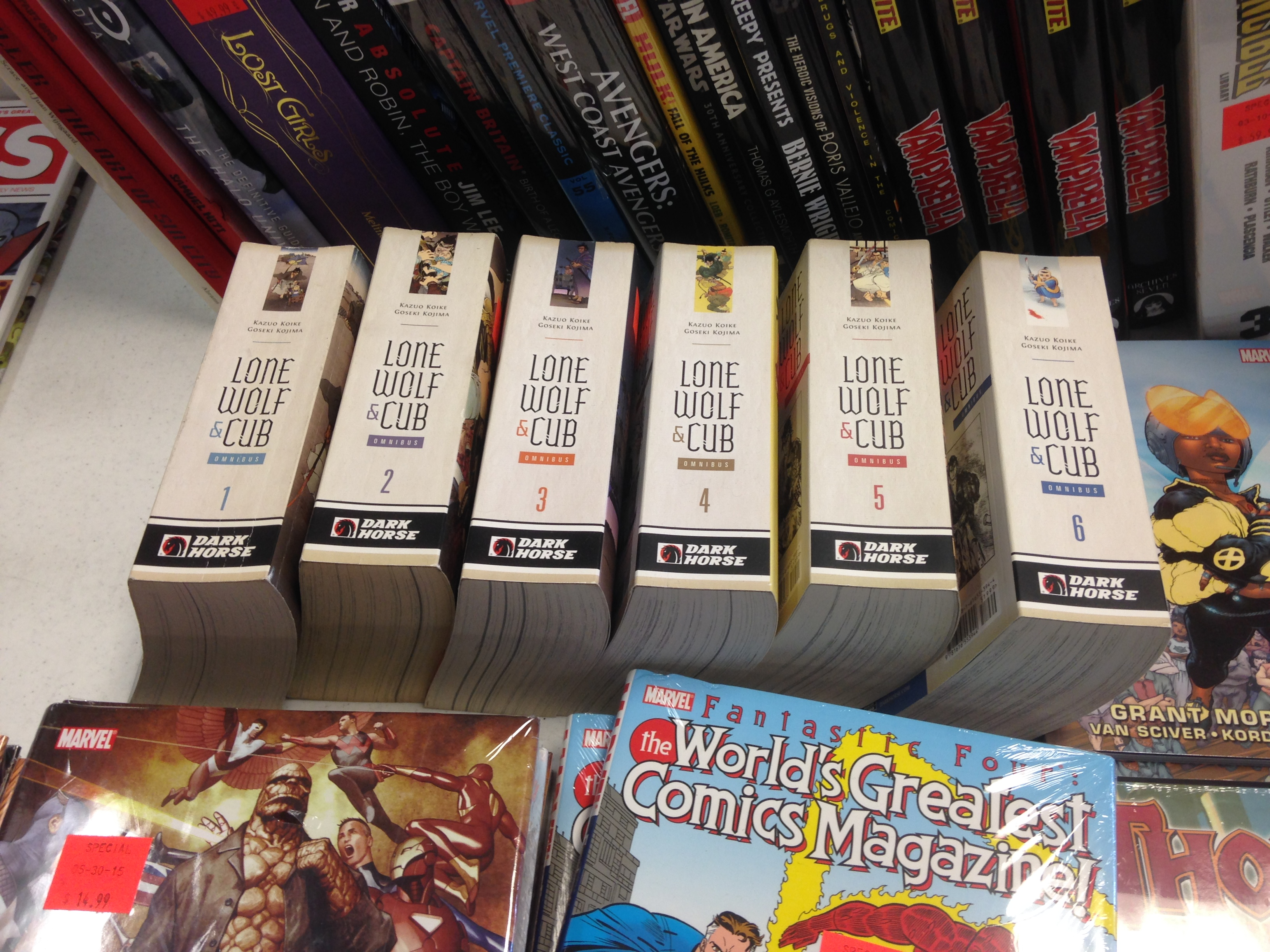 Omnibus set 1 - 6 of Lone Wolf and Cub from Dark Horse Comics